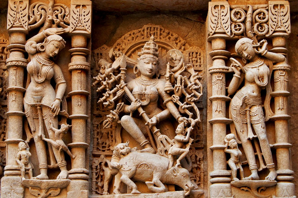 Rani-ki-vav